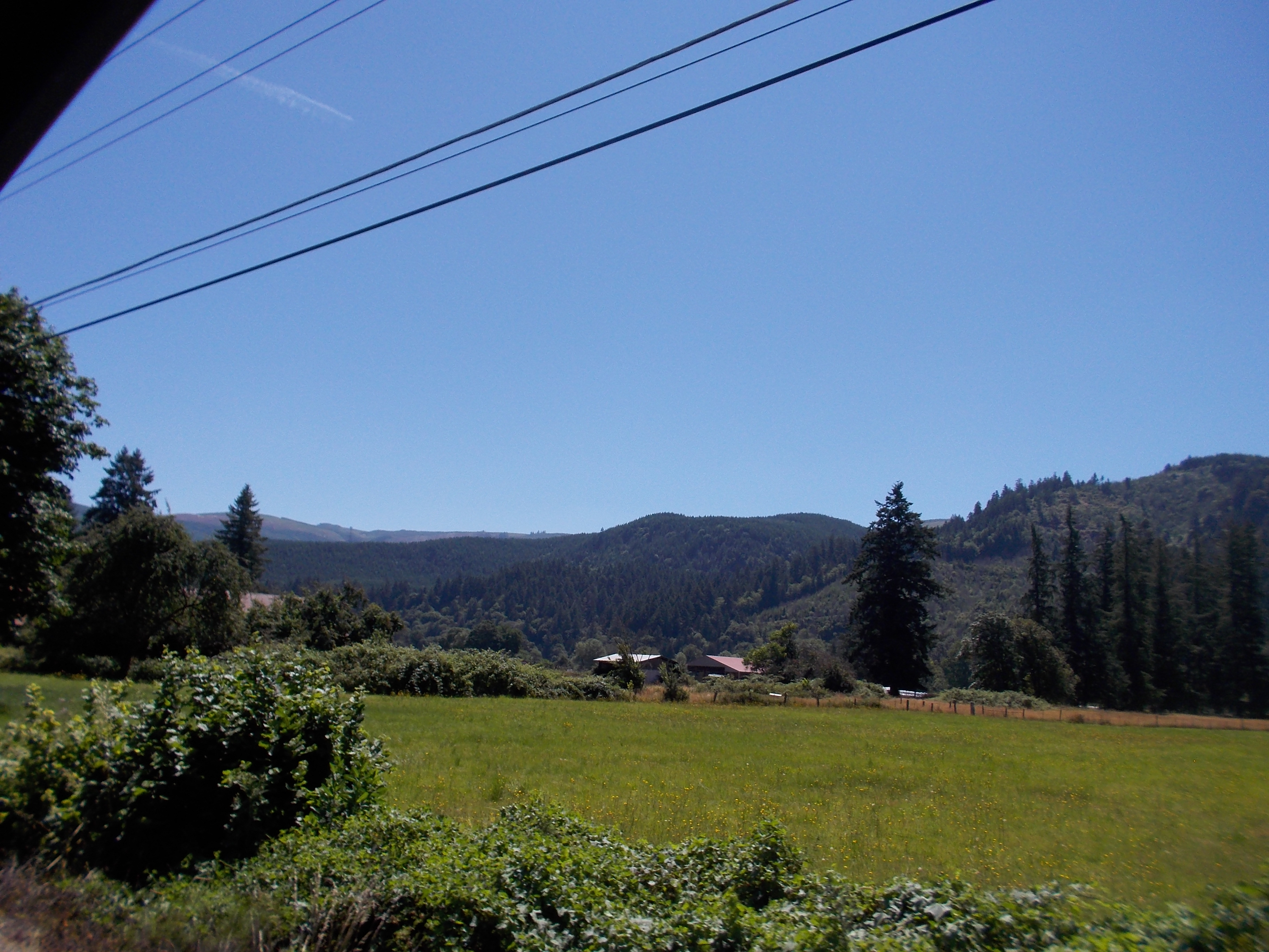 Deerhorn